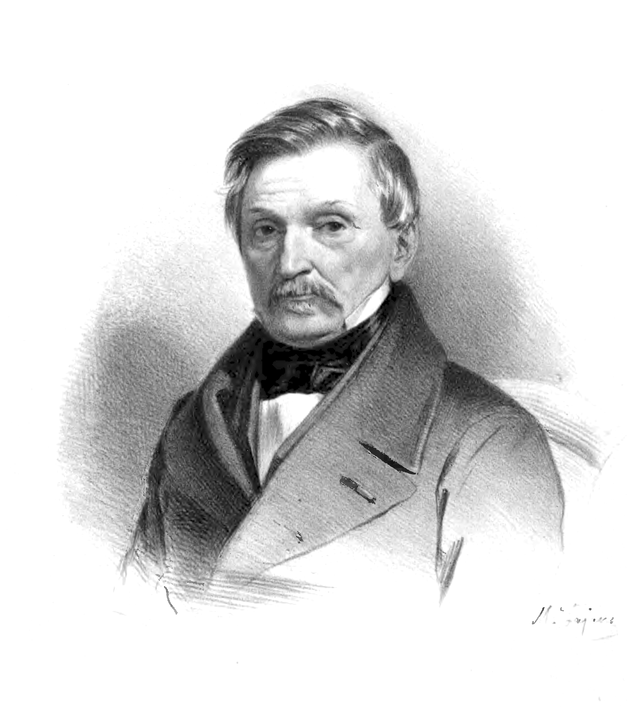 Painting of Aleksander Fredro